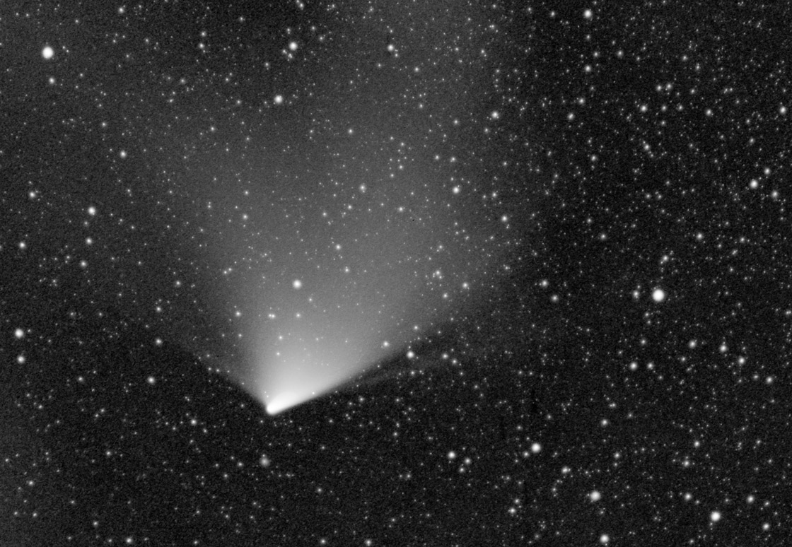 Comet C/2011 L4 (PanSTARRS) with a fan-shaped tail 2013-03-24 17:00UT in Special Astrophysical Observatory of the Russian Academy of Science near the village of Nizhny Arkhyz. Author: Stanislav Korotkiy ("Ka-Dar"). Canon 135mm/2.0L + ST-8300M + HEQ-5Pro. HDR summ 5 х 20 sec and 5 х 60 sec, bin 1х1, crop, resize 50%.